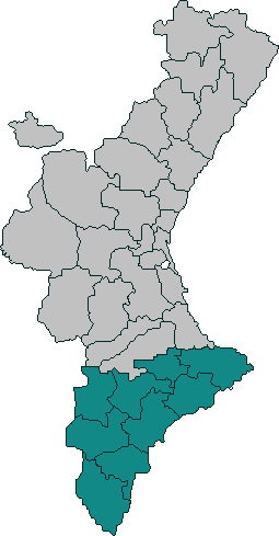 Localisation of Alacant province in the Land of Valencia with que comarcal borders